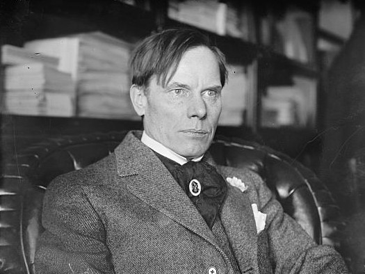 William Sulzer (1863 – 1941), Governor of New York, member of the U.S. House of Representatives from New York